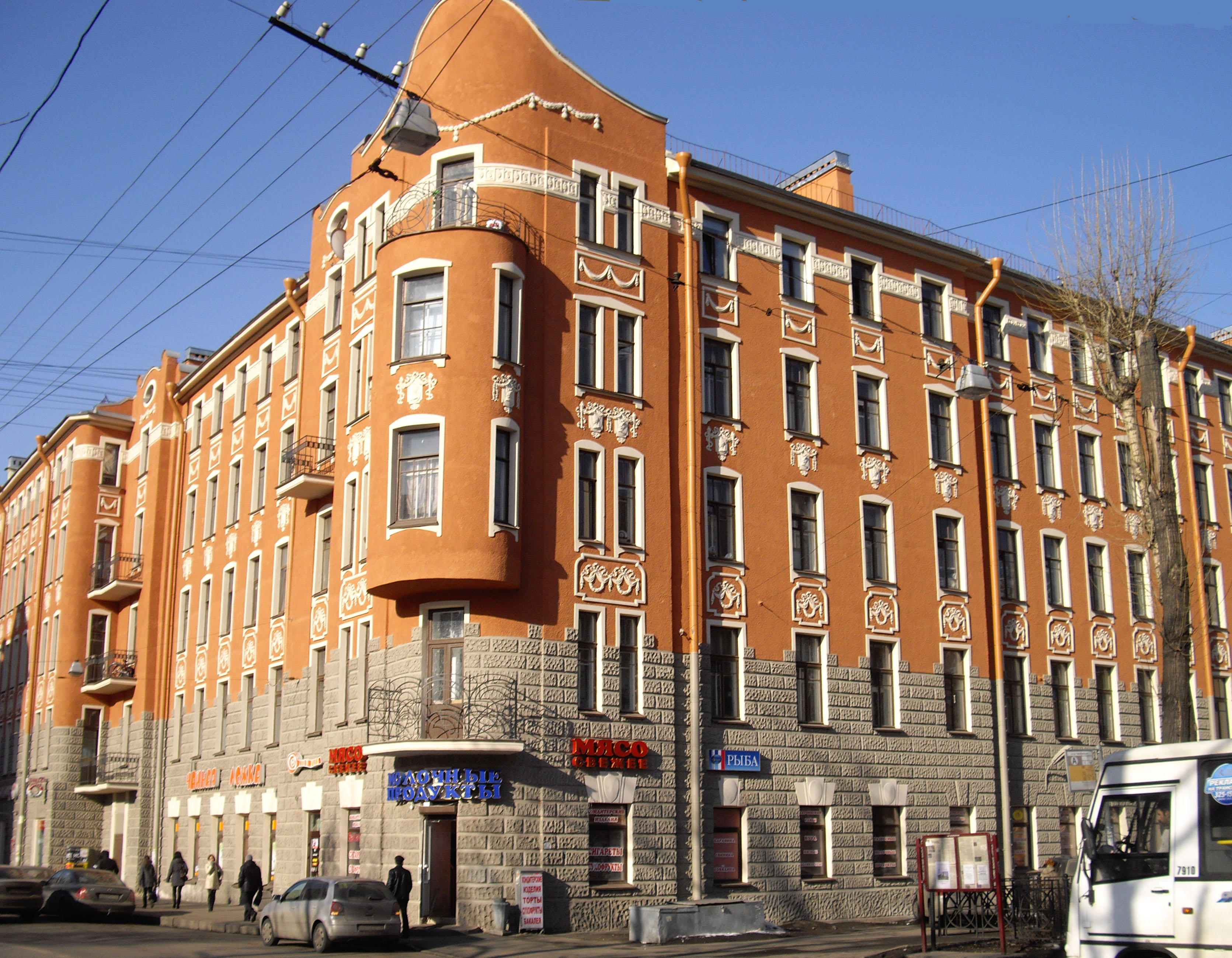 16, Chkalpovsky Prospekt (Saint Petersburg). Architect Pavel Mulkhanov, 1908.